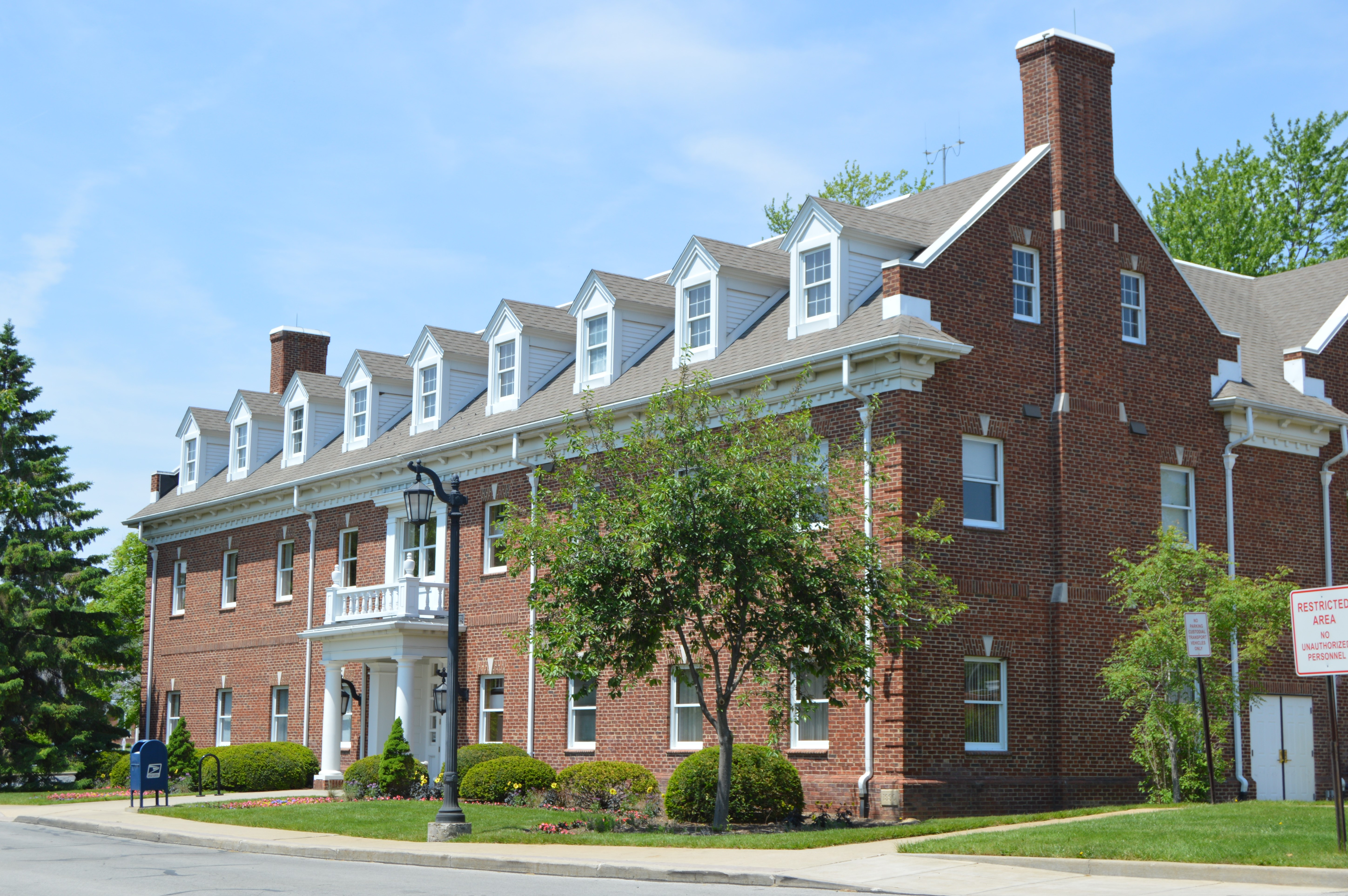 Front and eastern side of the Sylvania city hall, located at 6730 Monroe Street in Sylvania, Ohio, United States.